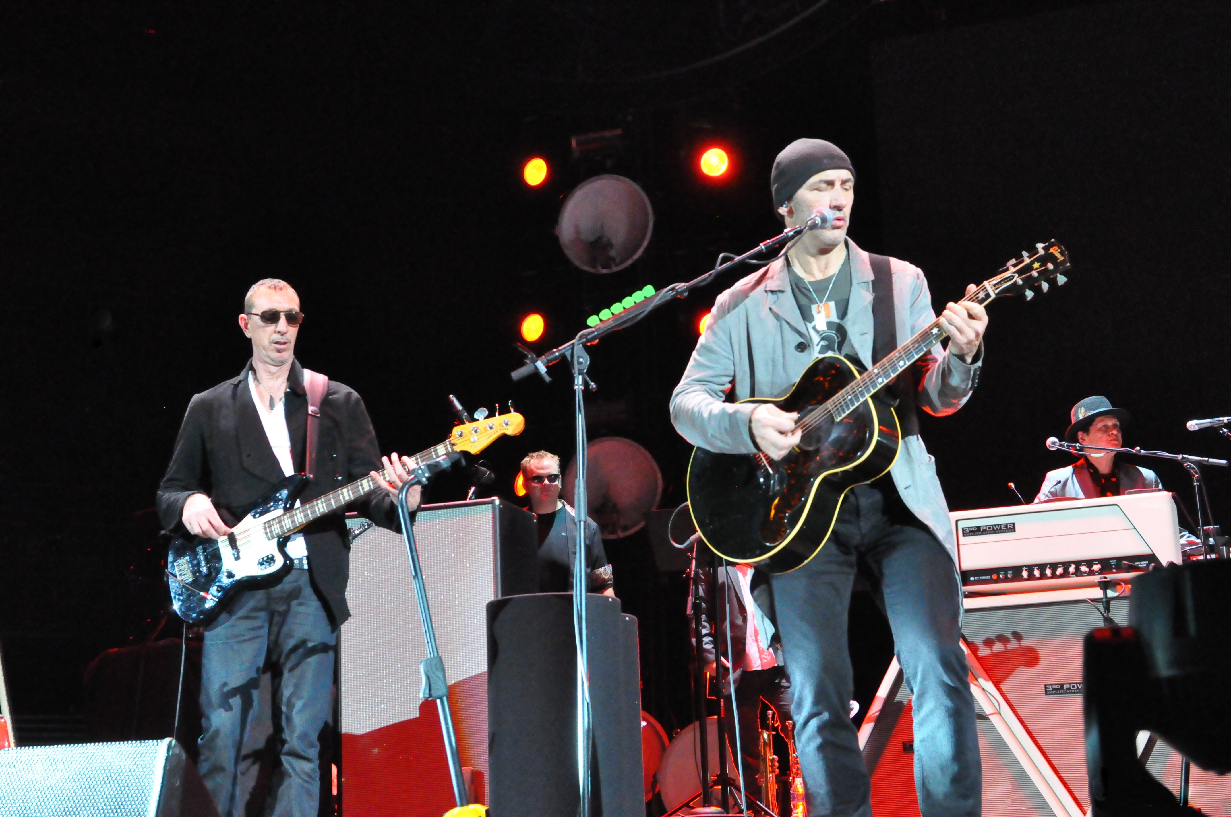 The Who.DSC_0399- 11.27.2012